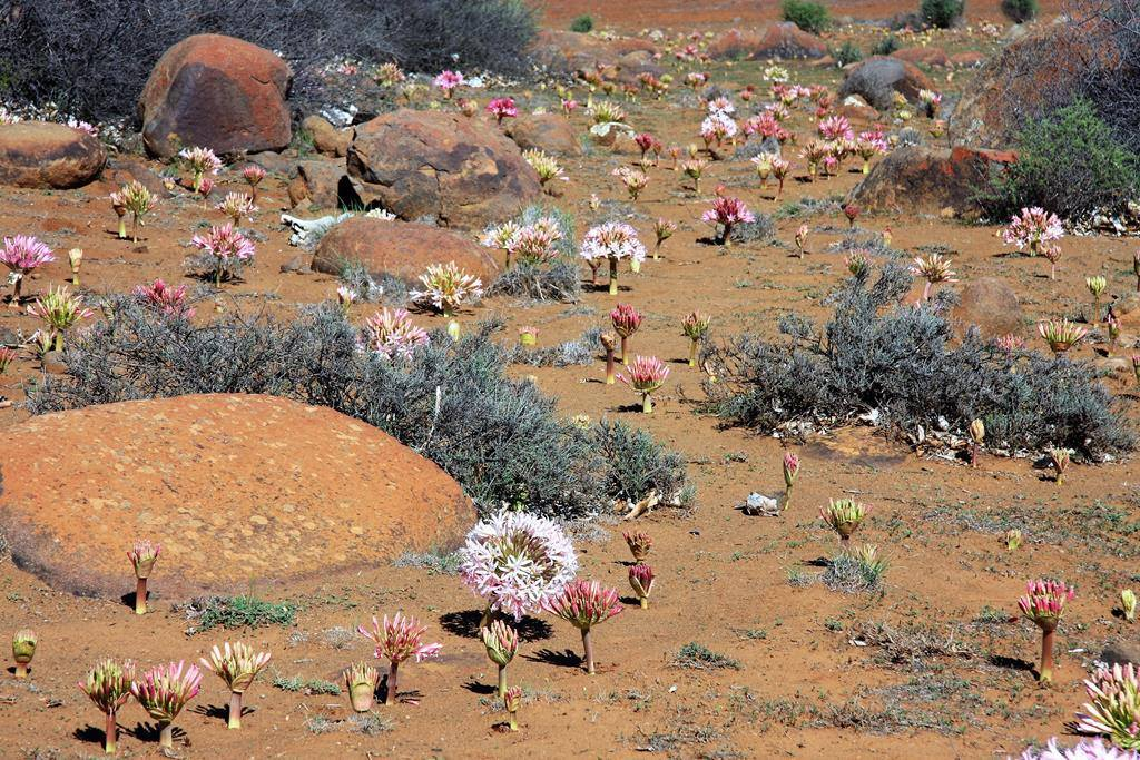 Bulbous plants flowering after rain Hantam National Botanical Gardens, Northern Cape, South Africa